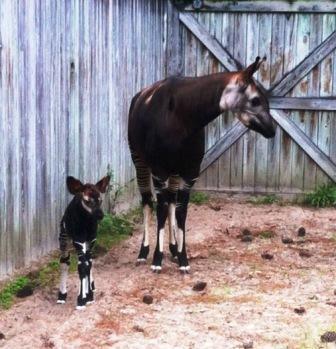 An okapi stands next to its calf at White Oak Conservation.